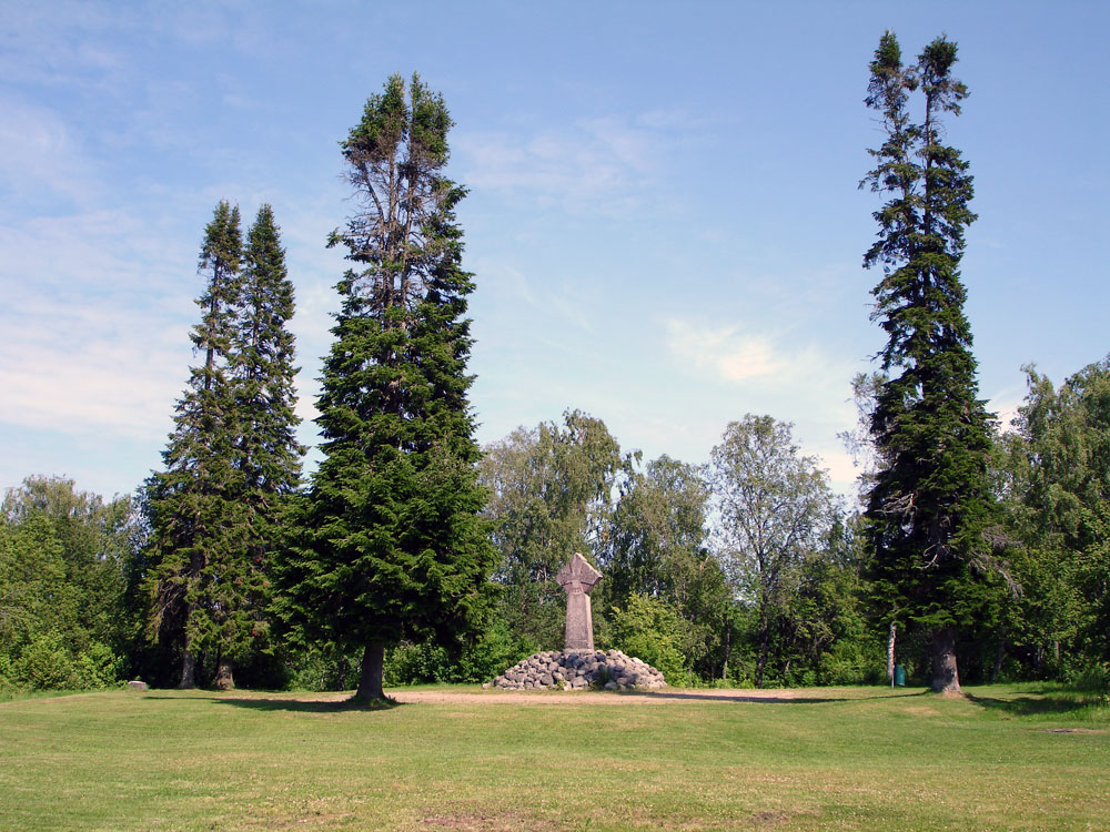 The hill where Korsholm castle was built.